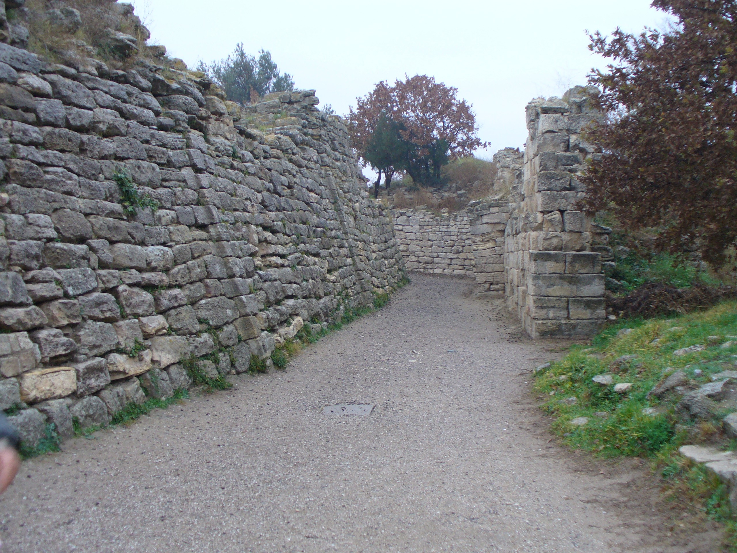 Walls of Priam's Troy (left) and Roman Troy (right). They did not form a path like this in Roman times; a grassy slope covered the walls of Priam's city by then.Troy walls VII and IX